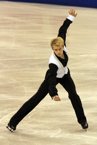 Michal Březina at the 2009 Skate Canada International.